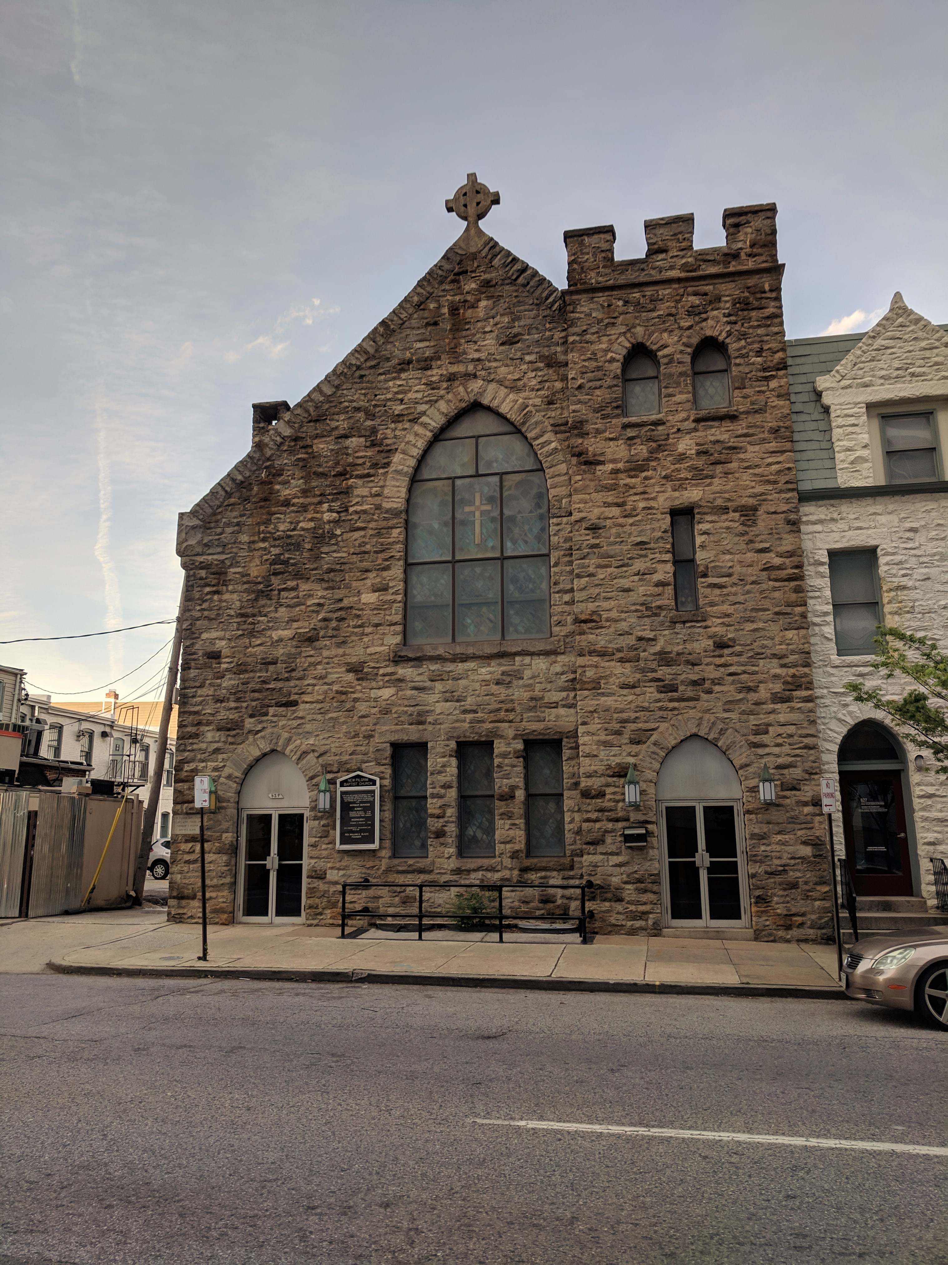 New Pilgrim Baptist Church on North Washington Street, a black Baptist church in the Middle East neighborhood of East Baltimore. The building was previously used as the Mount Tabor Bohemian Methodist Church, one of the few Czech Protestant churches in Baltimore.